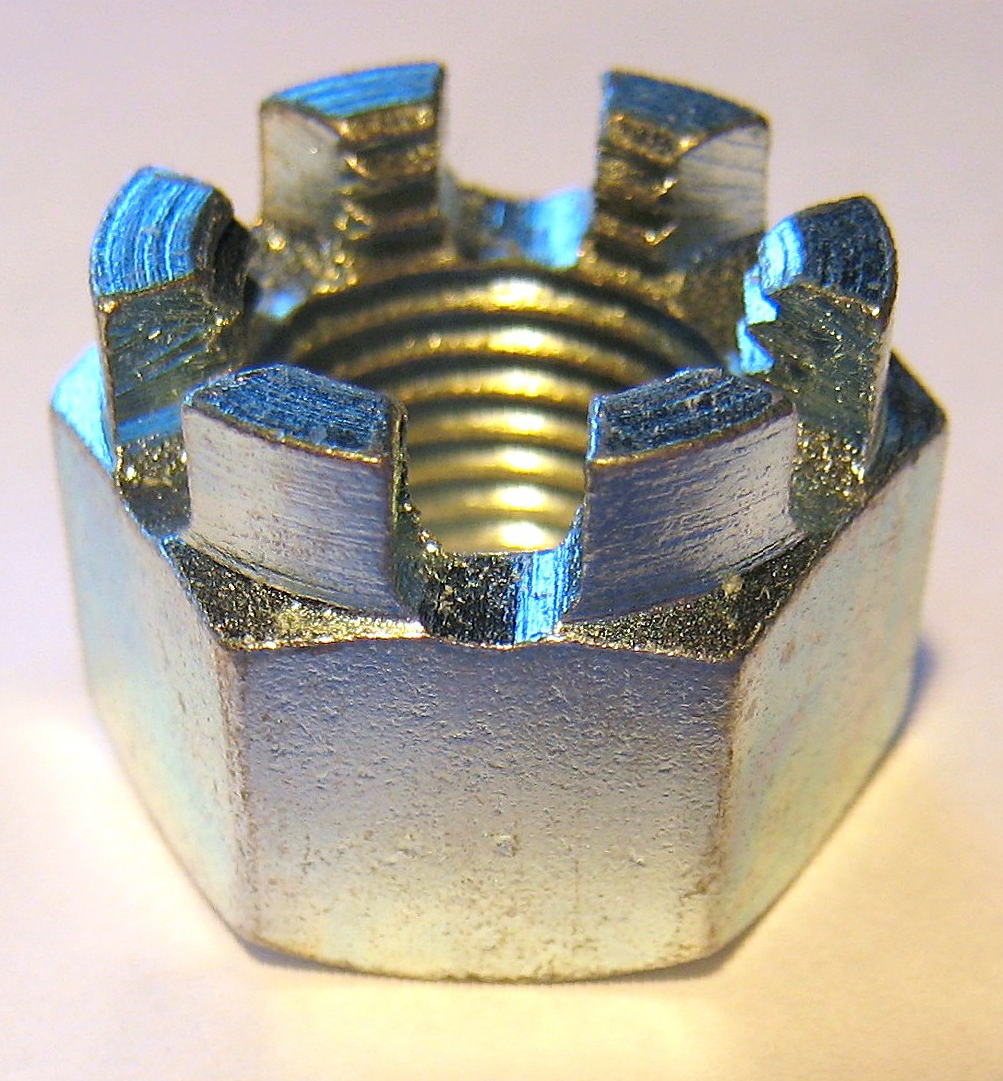 An unused castellated nut. Original photo by btarski 9/1/07